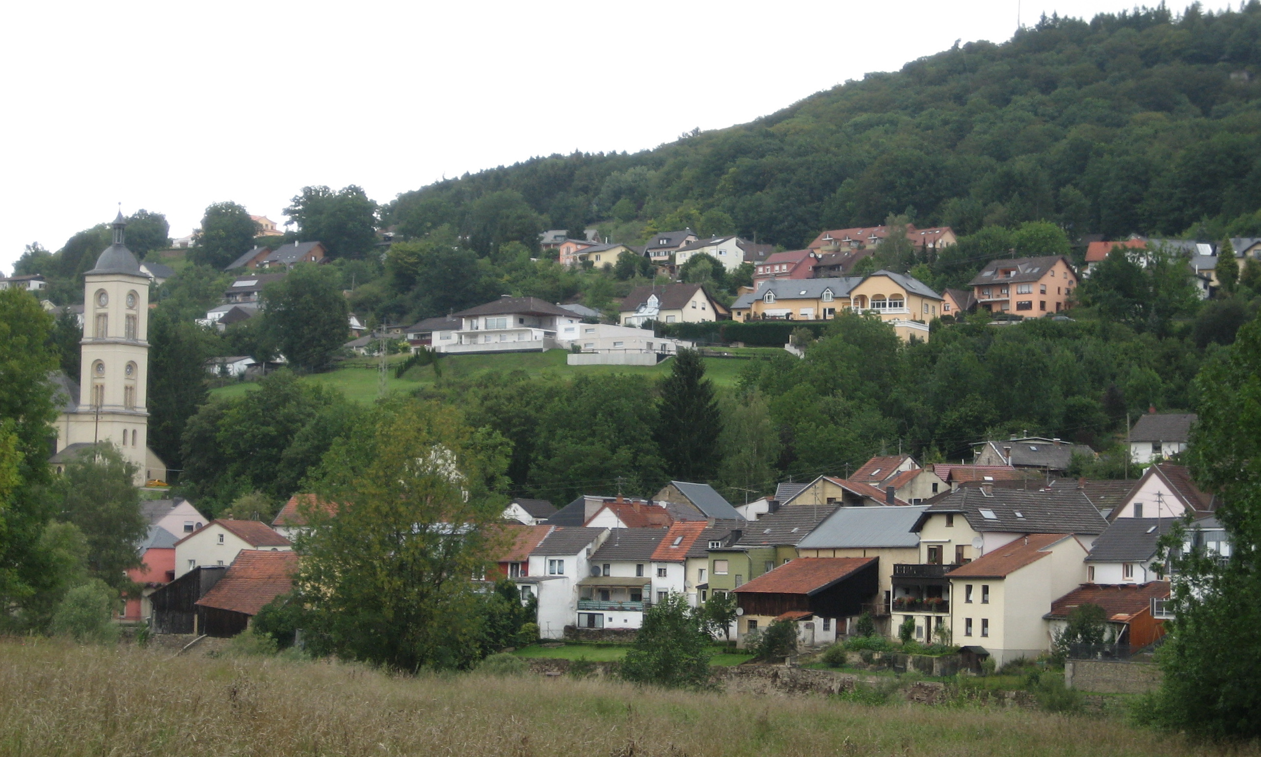 Bollendorf (Eifel) as seen from the Luxembourg side of the river Sauer/Sûre.